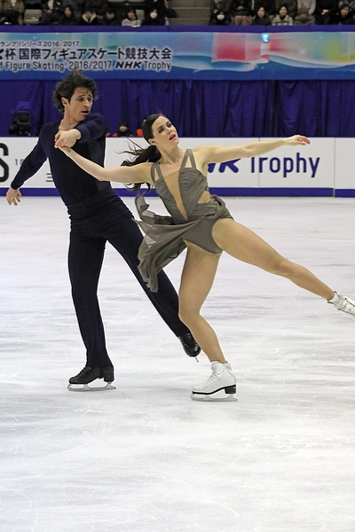 Tessa Virtue and Scott Moir at the 2016 NHK Trophy